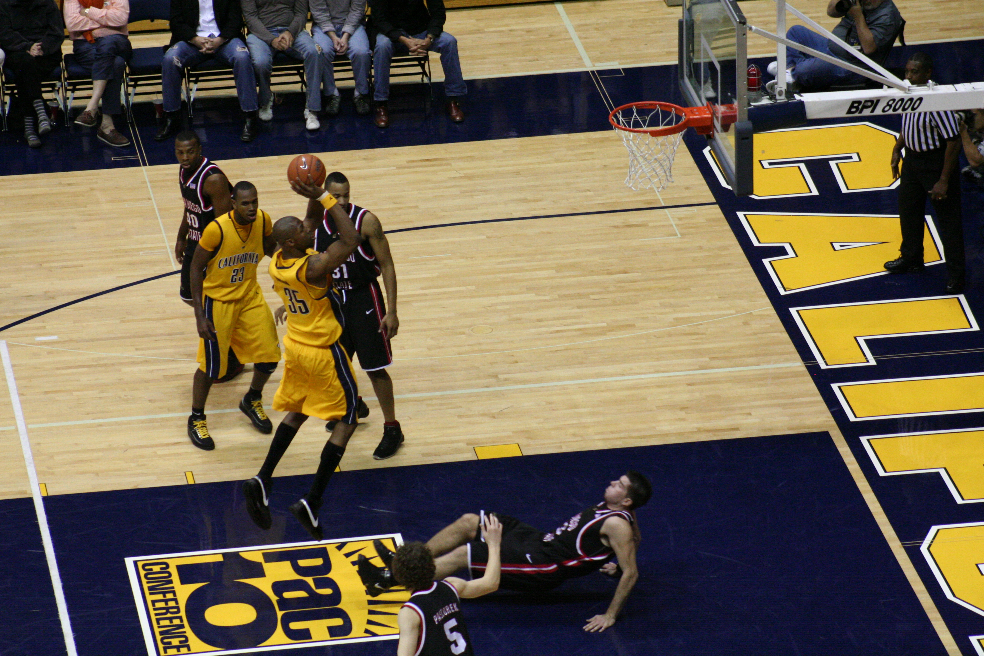 A Cal player takes a jump shot against San Diego State.